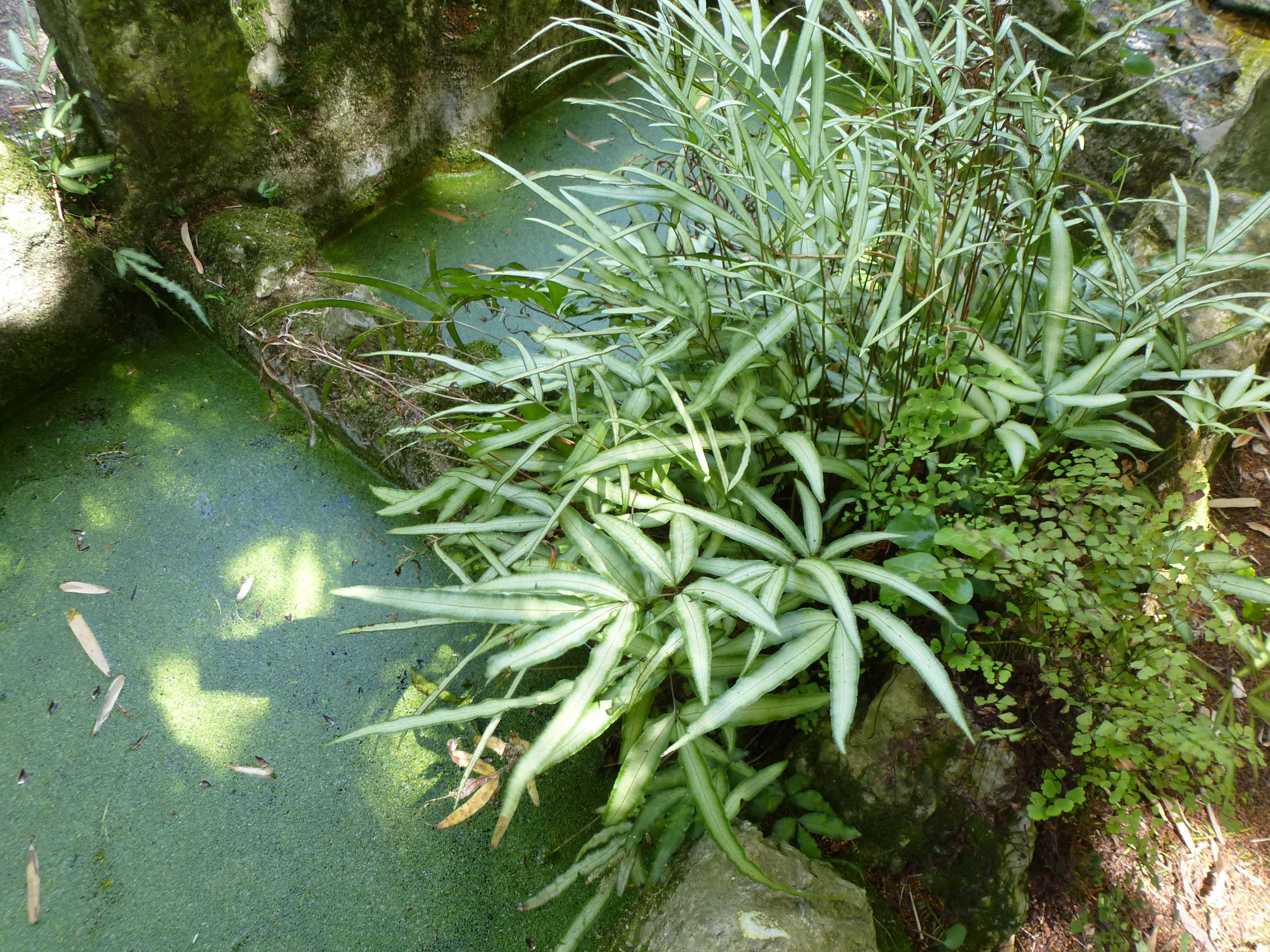 Pteris cretica and a smaller Adiantum sp. Into the Botanical Garden of Lisbon (Jardim Botânico de Lisboa). Portugal.